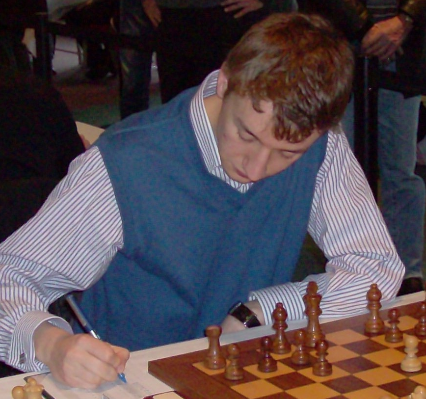 Luke McShane, chess grandmaster